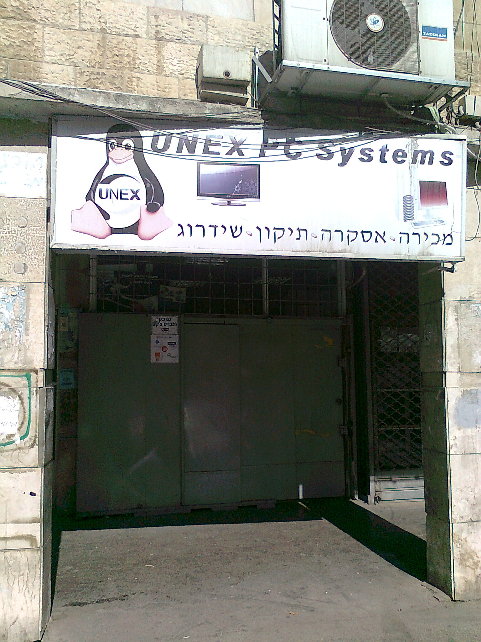 The words "unix" and "השכרה" aren't written properly.